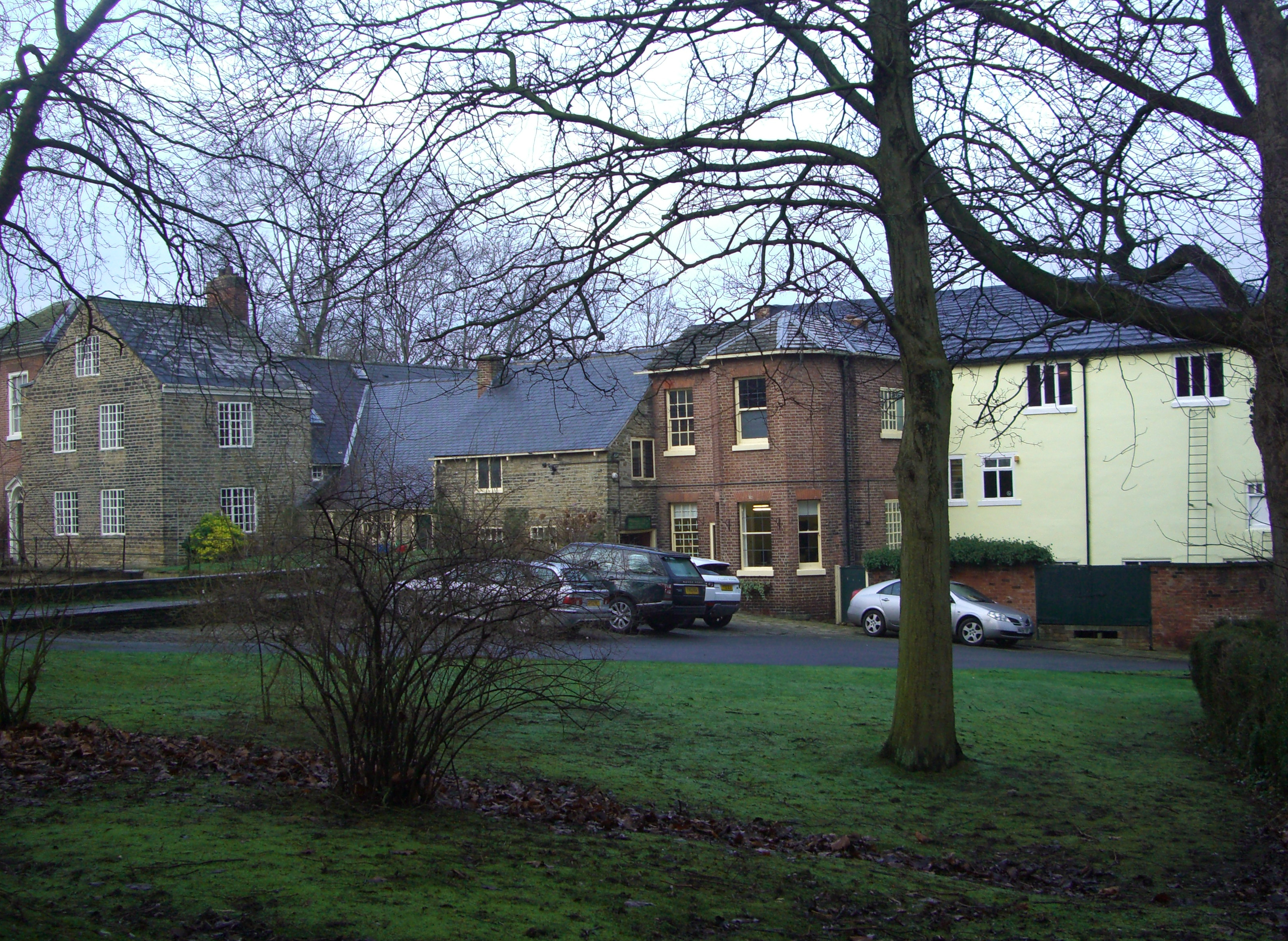 The buildings of Sharrow Mills, Sheffield, England seen from Frog Walk. The buildings are the headquarters of Wilsons, snuff manufacturers.